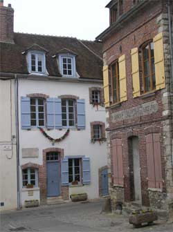 St. Madaleine Sophie Barat's birth house at Joigny, France.